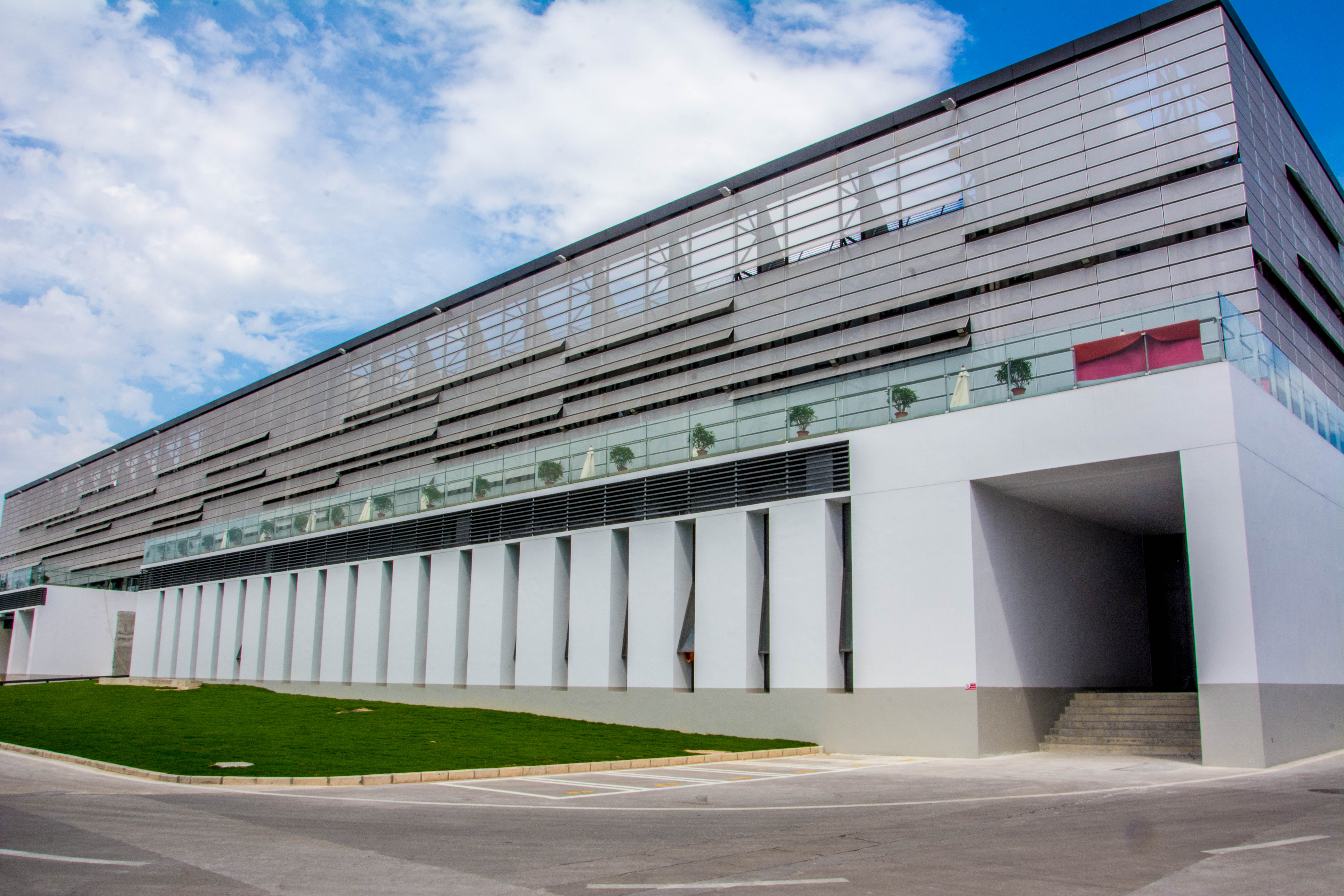 FIH-Sharp Office Building